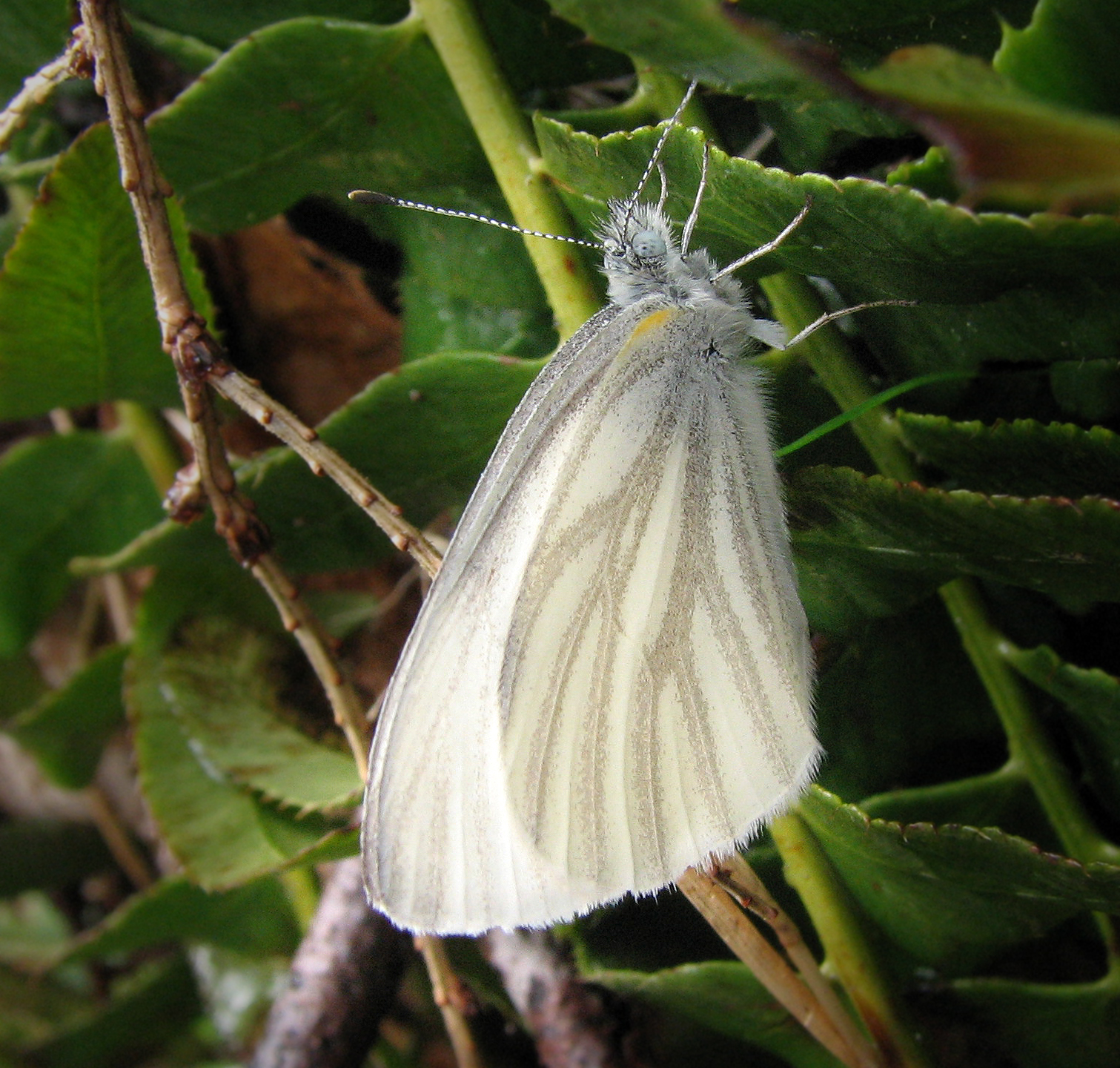 Pieris virginiensis (West Virginia White - Hodges#4196). Dry Fork River, Randolph County, West Virginia, USA.